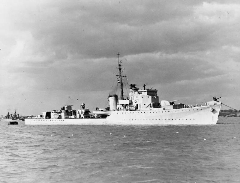 Photograph of British Hunt class destroyer HMS Hambledon.